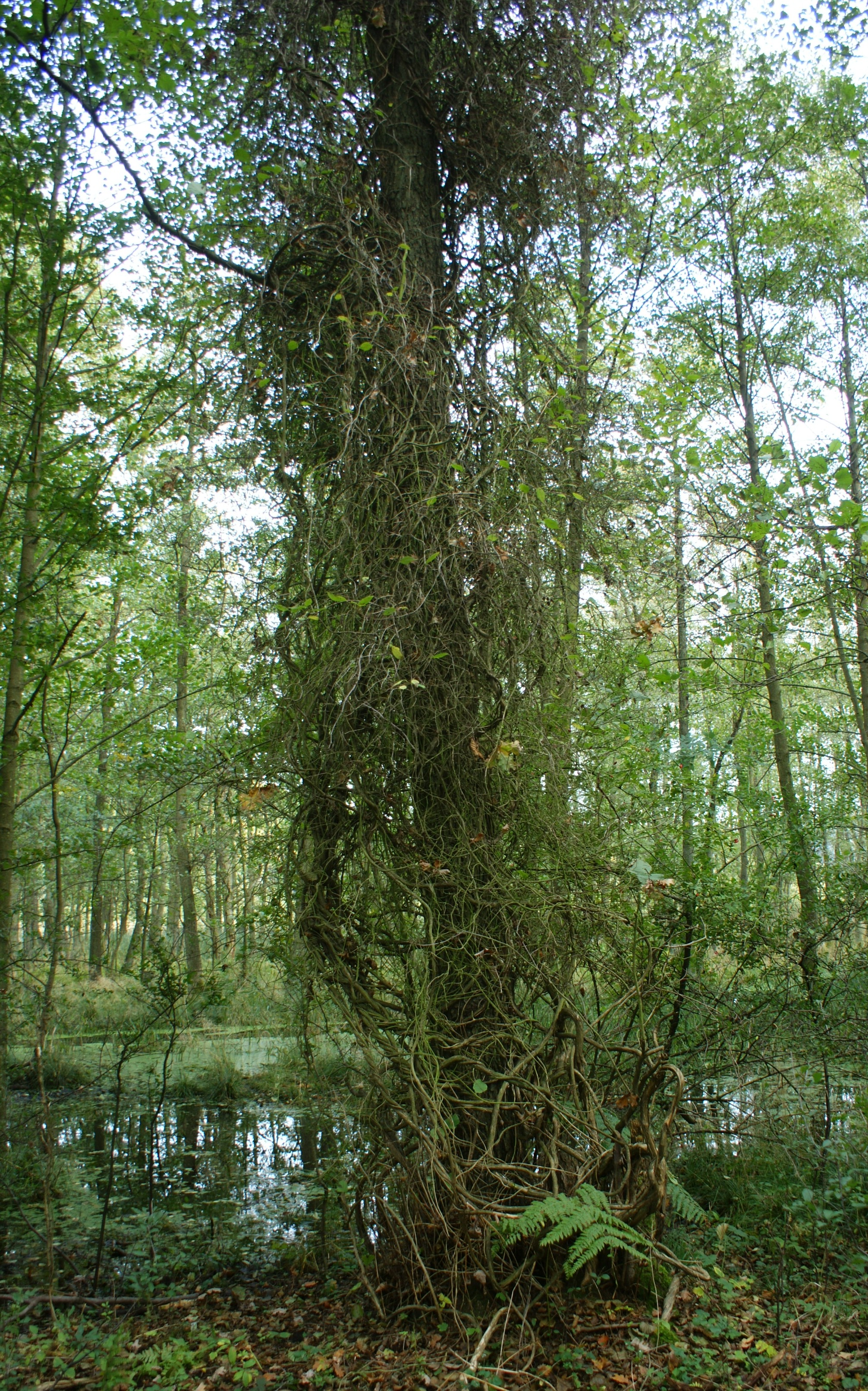 Lonicera periclymenum, habit